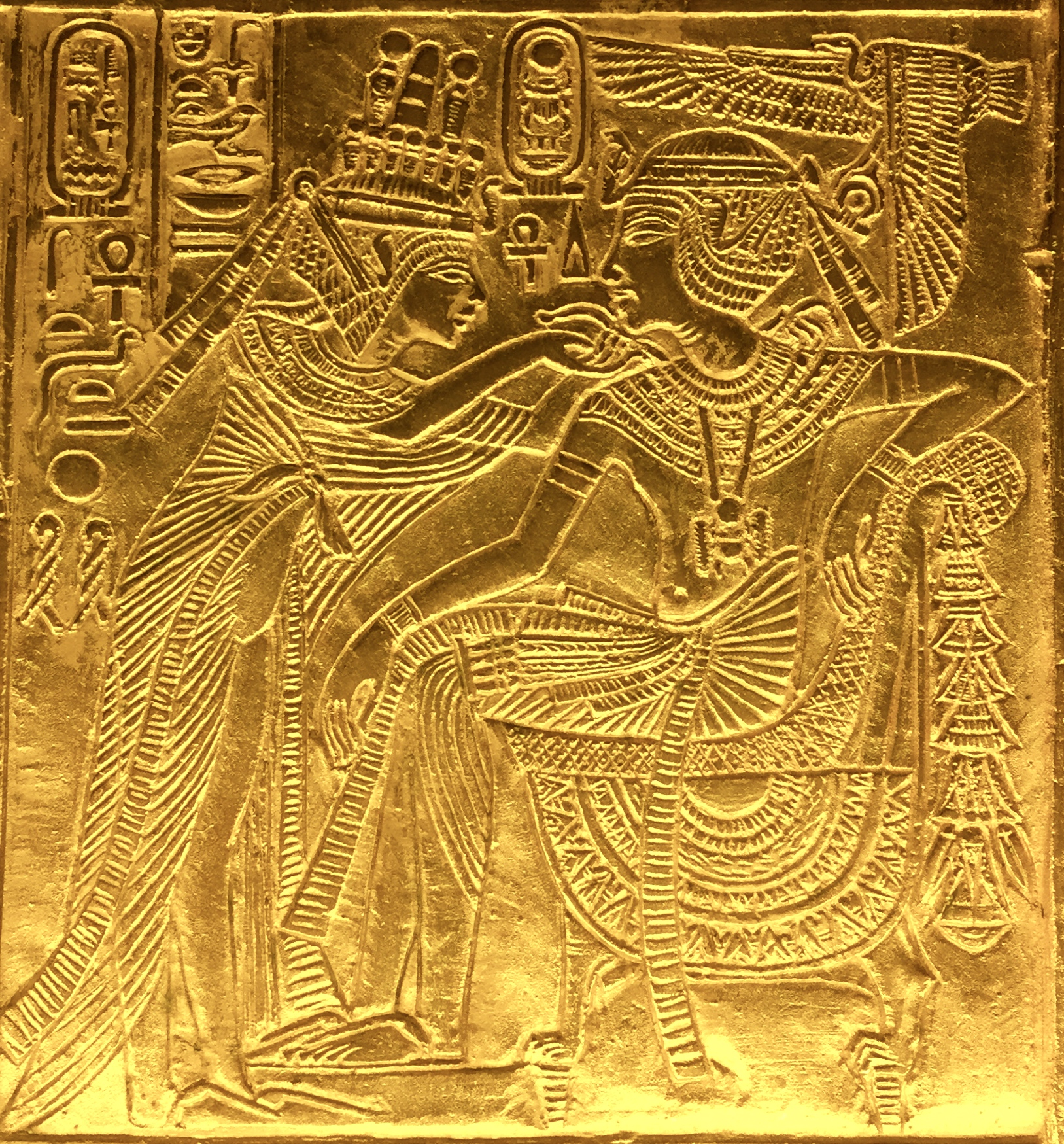 Scene from gilded shrine of Tutankhamen showing him and his wife Queen Ankhesenamun